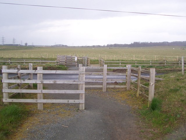 Footpath crosses Jeskyns Road This is part of a footpath trail around the 360 acres of Greenspace managed by the Forestry Commission. The path leads from an area of land called the Cherry Orchard into the main bulk of land with carparking, and other points of interest.